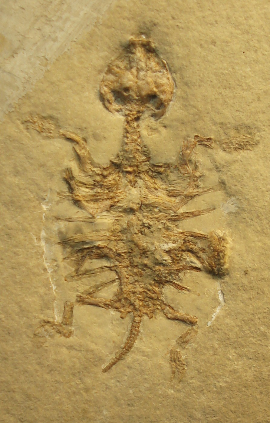 fossil of aplax